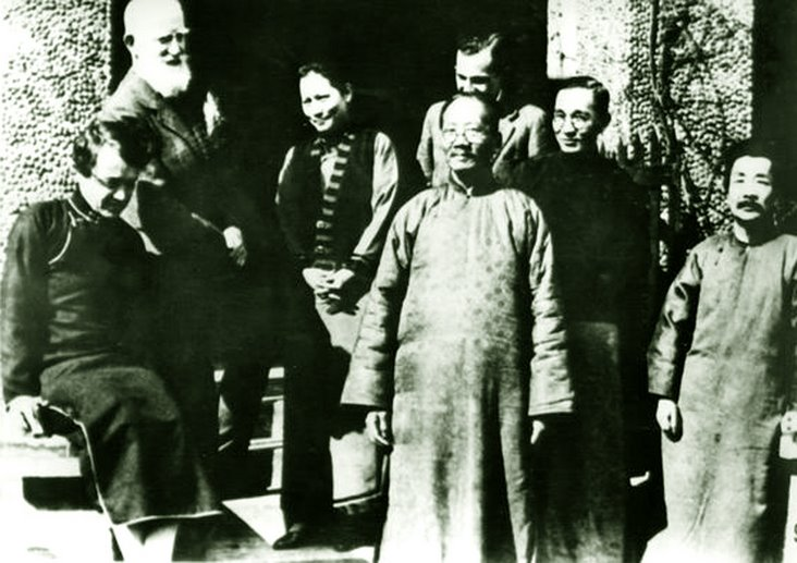 (from left to right) Agnes Smedley, George Bernard Shaw, Soong Ching-ling, Cai Yuanpei, Harold R. Isaacs, Lin Yutang and Lu Xun